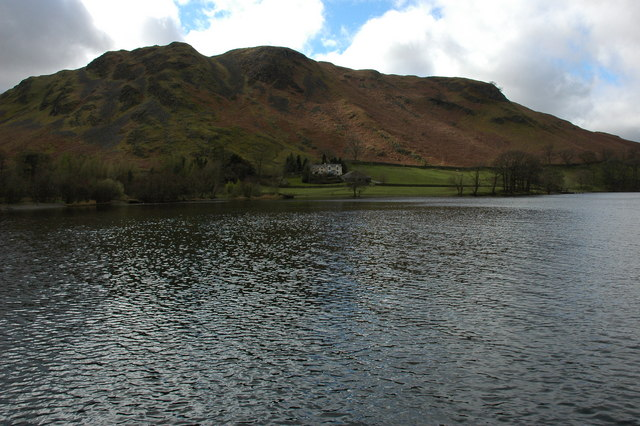 Hallin Fell Hallin Fell viewed from the pier at Howtown.